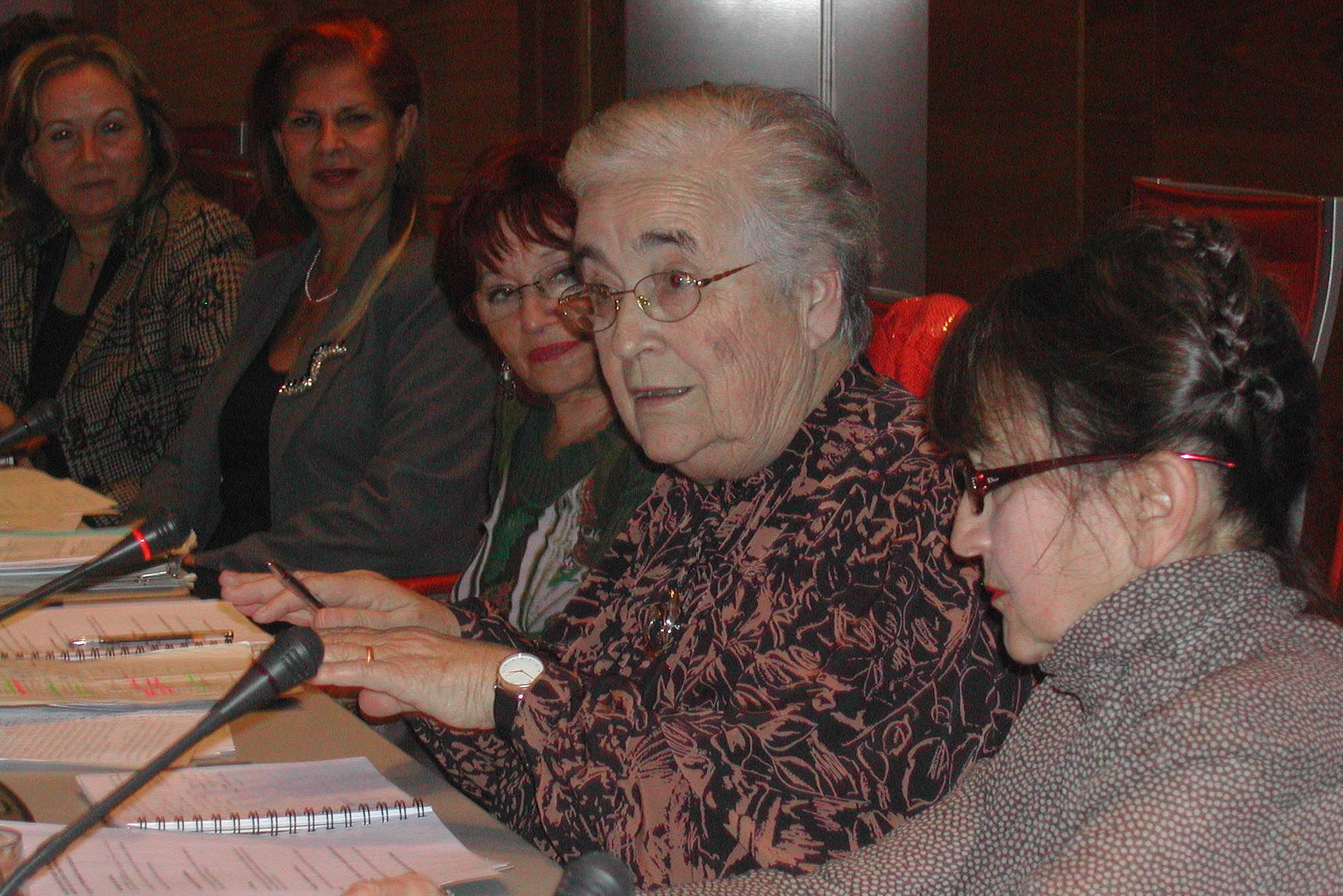 27 years later - Meeting in the Senate of senators and deputies of the Constituent Legislature (1977-1979) 27 years after Madrid in January 2006 María Izquierdo en primer plano, le sigue Marta Mata, Julia Sevilla y Carmen Alborch. Reunión en el Senado de senadoras y diputadas de la Legislatura Constituyente 27 años después. Enero 2006.